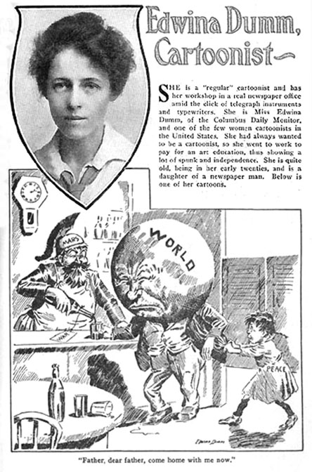 Cartoonist Edwina Dunn. Published January 1917 in Cartoons Magazine